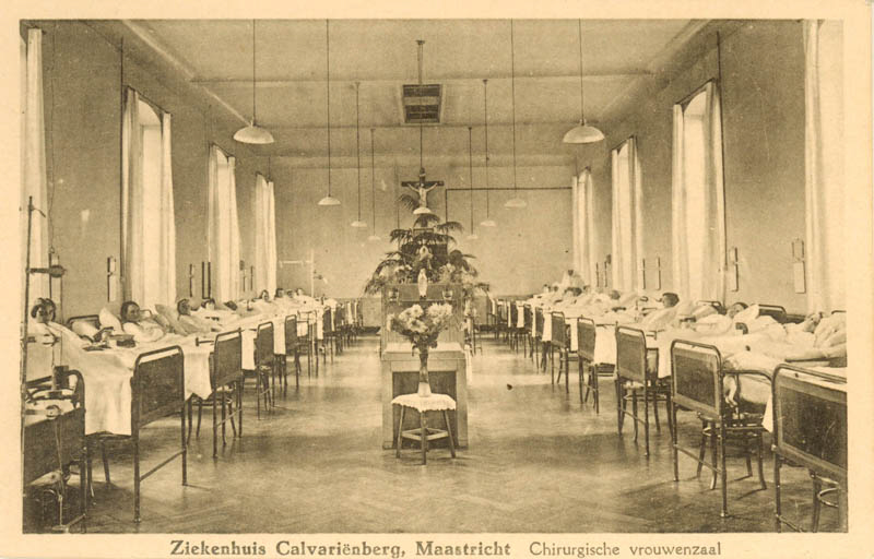 View of a women's ward in Calvariënberg Hospital in Maastricht, Netherlands, in 1920. Photograph collection of RHCL, Maastricht, ref. nr. 14963.